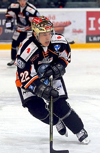 Steve Kariya Steve is a brother of Paul Kariya who plays with the St. Louis Blues in the NHL